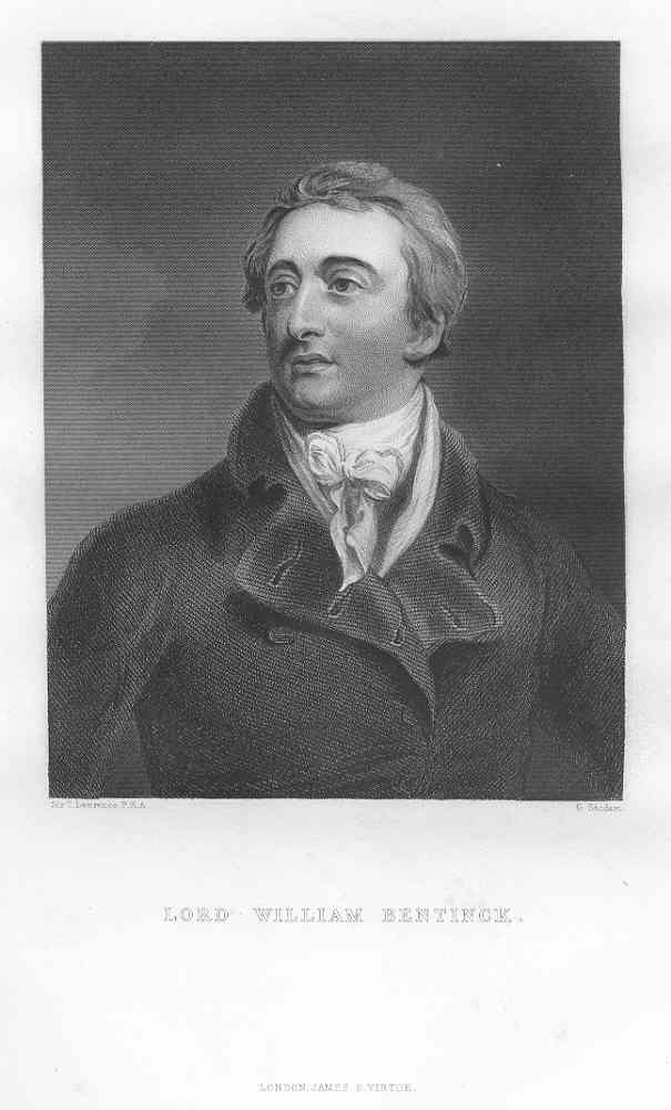 Lord William Henry Cavendish-Bentinck (* 14. September 1774; † 17. Juni 1839 in Paris), britischer General und Staatsmann.